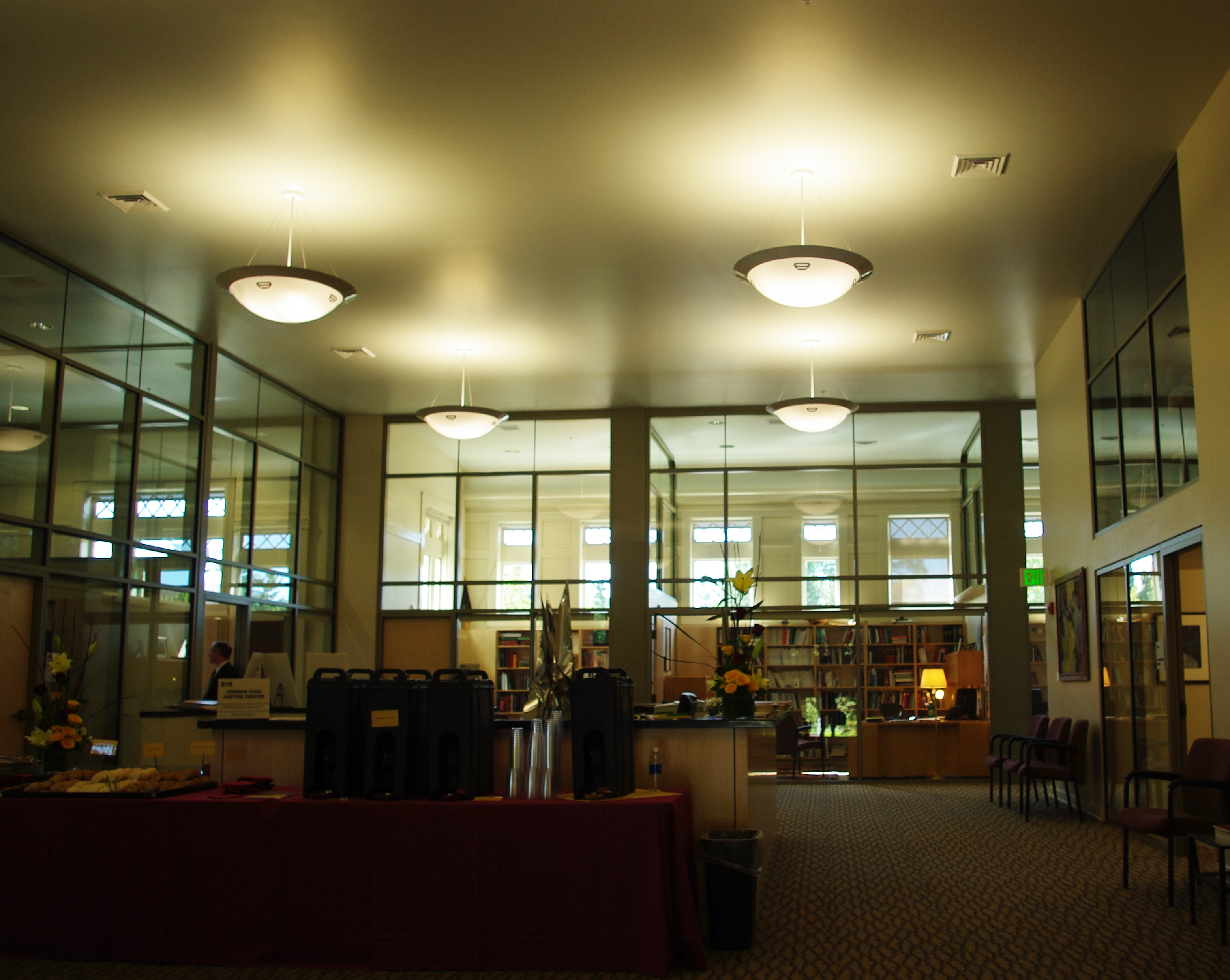 Inside the Oregon Civic Justice Center.